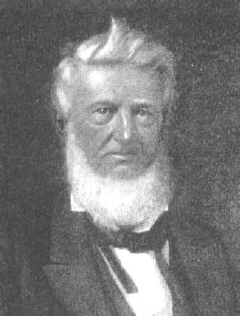 David G. Burnet This appears to be a copy of the official State of Texas portrait that currently hangs in the Texas State Capitol (or may have been the basis for that portrait).